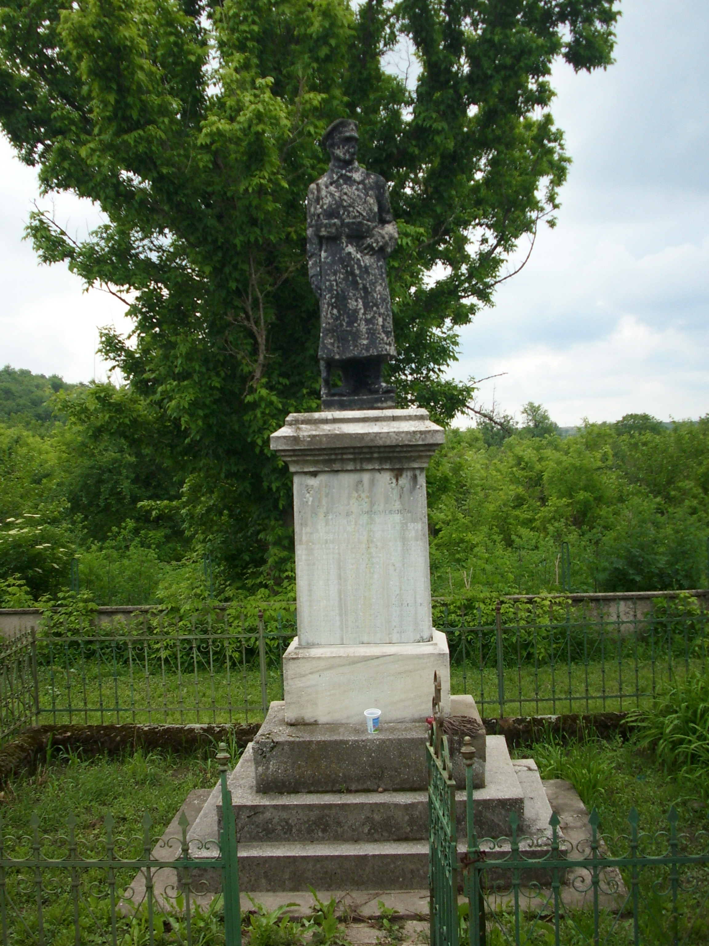 Monument in Mokresh